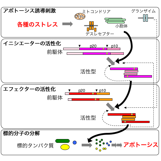 Diagram of caspases cascade, with Japanese annotation.